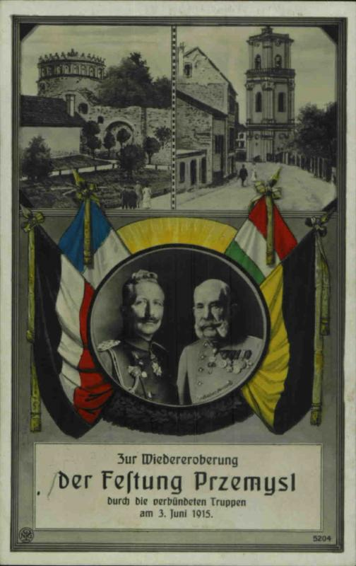 Przemyśl fortress